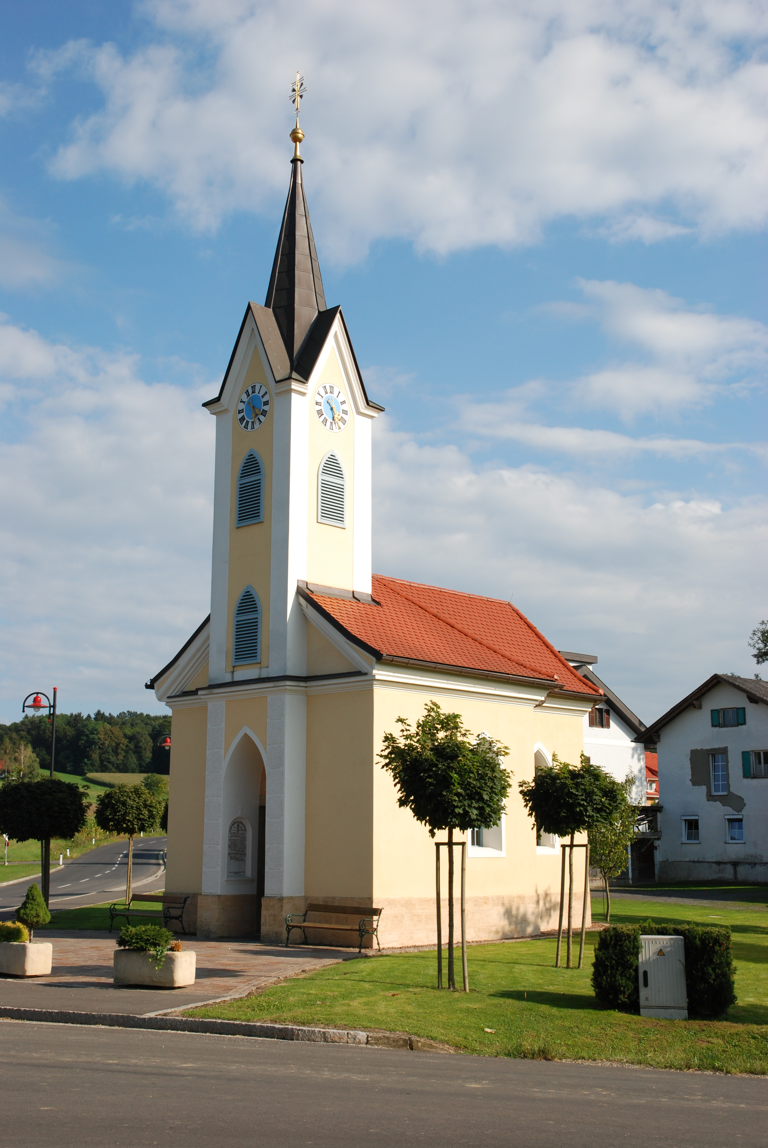 Kapelle Krusdorf